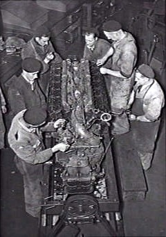 Laverton, Vic. 20 May 1944. Engine fitters assembling a Rolls Royce Merlin aircraft motor after a complete overhaul at Engine Repair Squadron, No. 1 Aircraft Depot, RAAF.